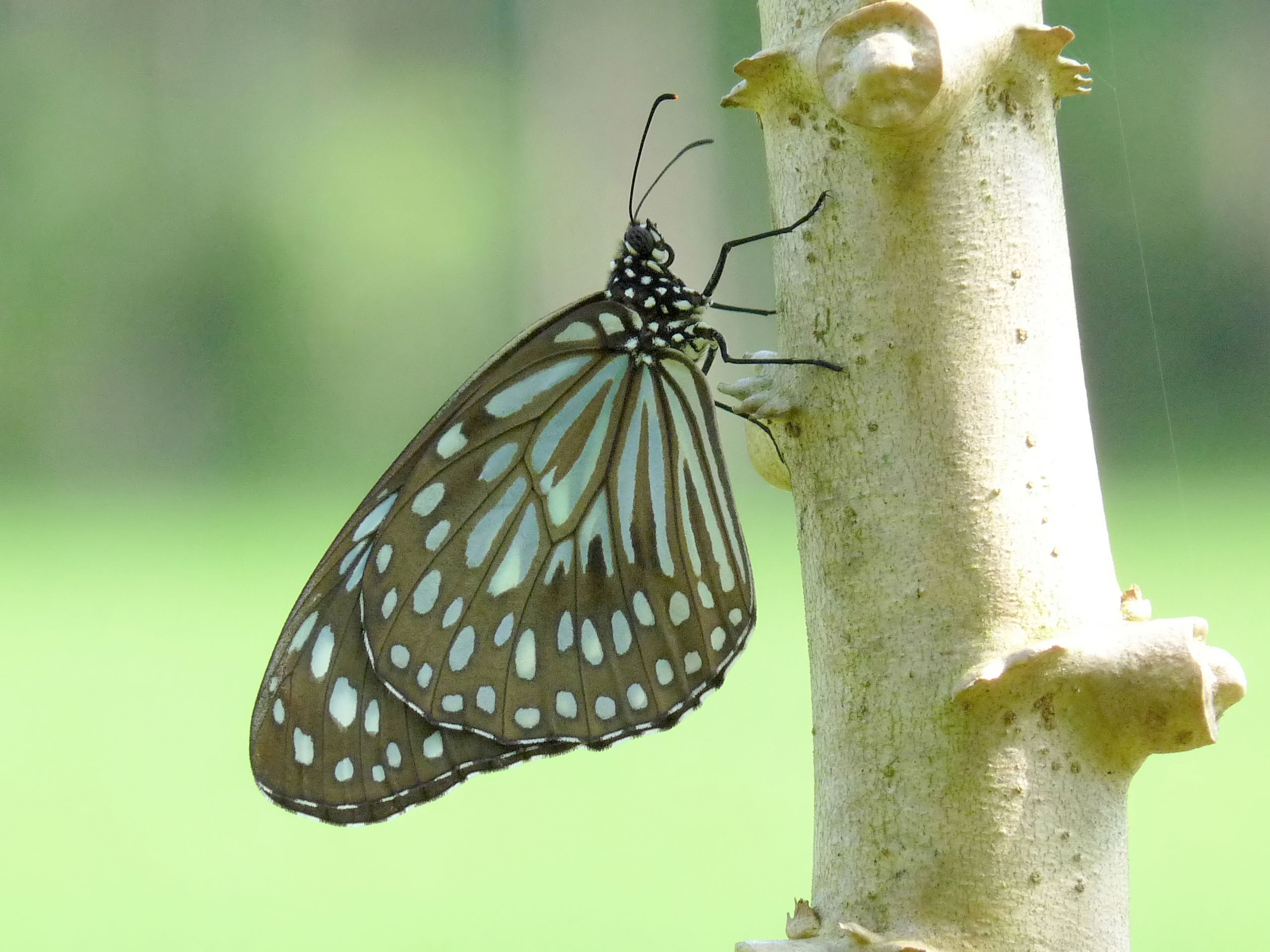 The Dark Blue Tiger (Tirumala septentrionis) is a Danainae butterfly found in South Asia and Southeast Asia. This is a female. Taken at Kadavoor, Kerala, India.